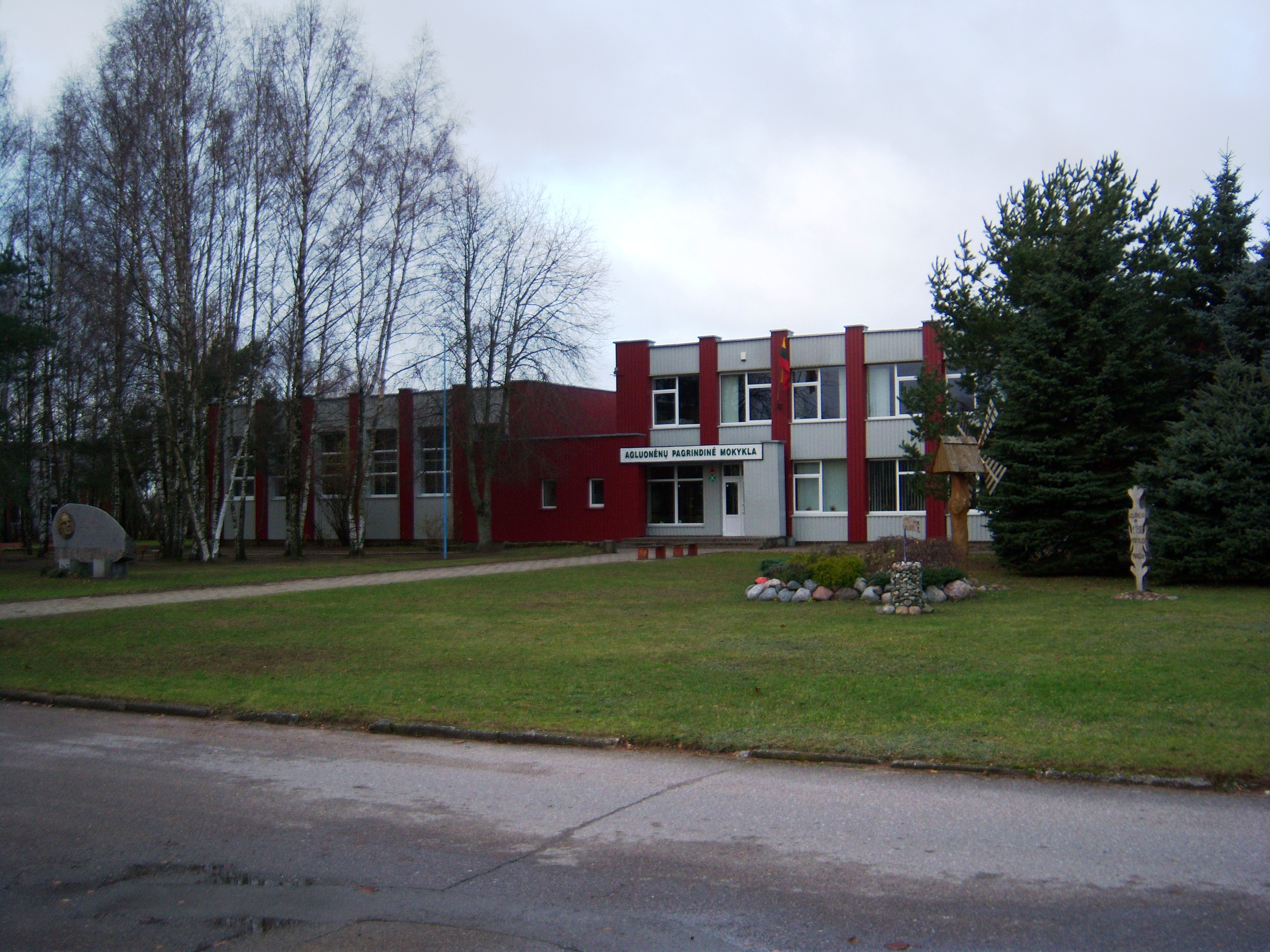 Agluonėnai school, Klaipėda District, Lithuania